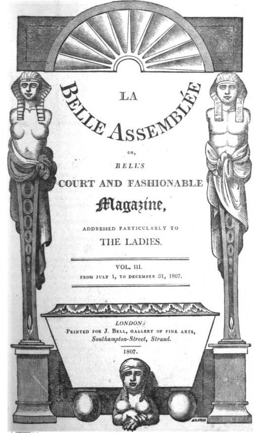 Title page from La Belle Assemblée or, Bell's court and fashionable magazine Volume III, with fashionable pseudo-Egyptian decoration.